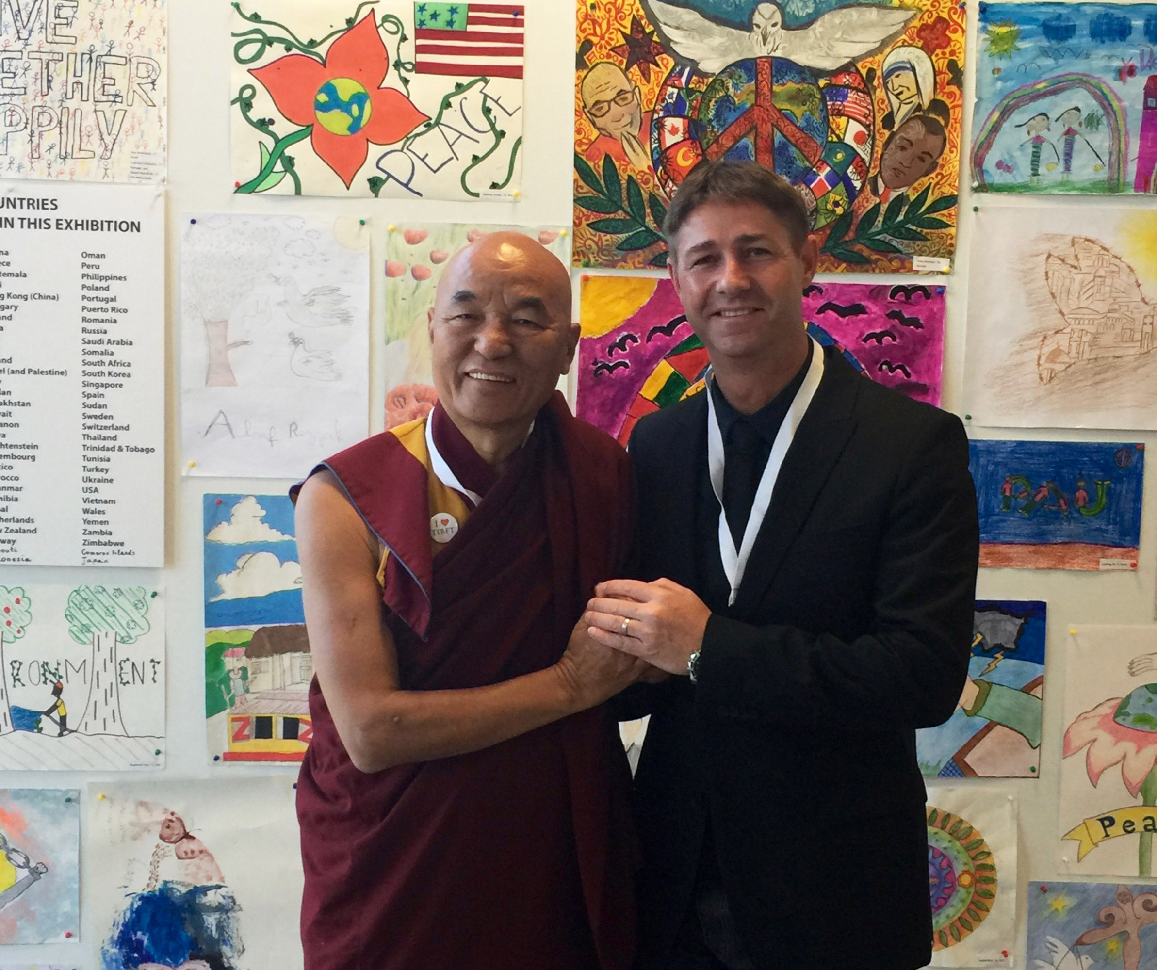 Thubten Wangchen Sherpa, the Dalai Lama's representative in Europe with Grant Schreiber, editor of Real Leaders in Barcelona, 2015